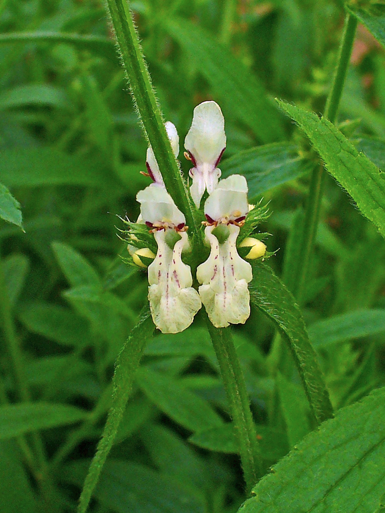 Stachys recta, Lamiaceae, Yellow Woundwort, flowers.